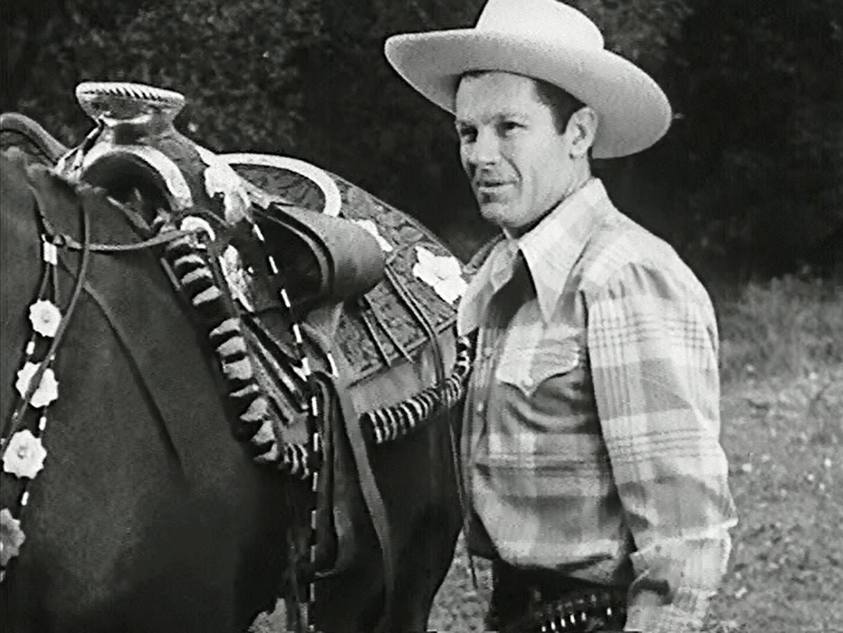 Low resolution screenshot of Tom Keene as Tom Allen in the American western film Western Mail (1942). The film is in the public domain due to the copyright not being renewed.